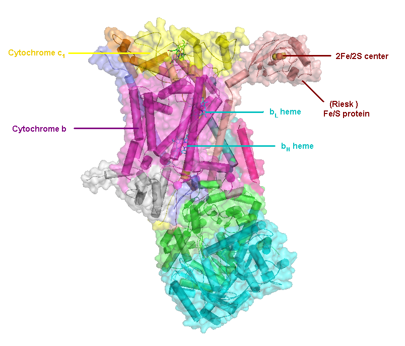 created using Pymol